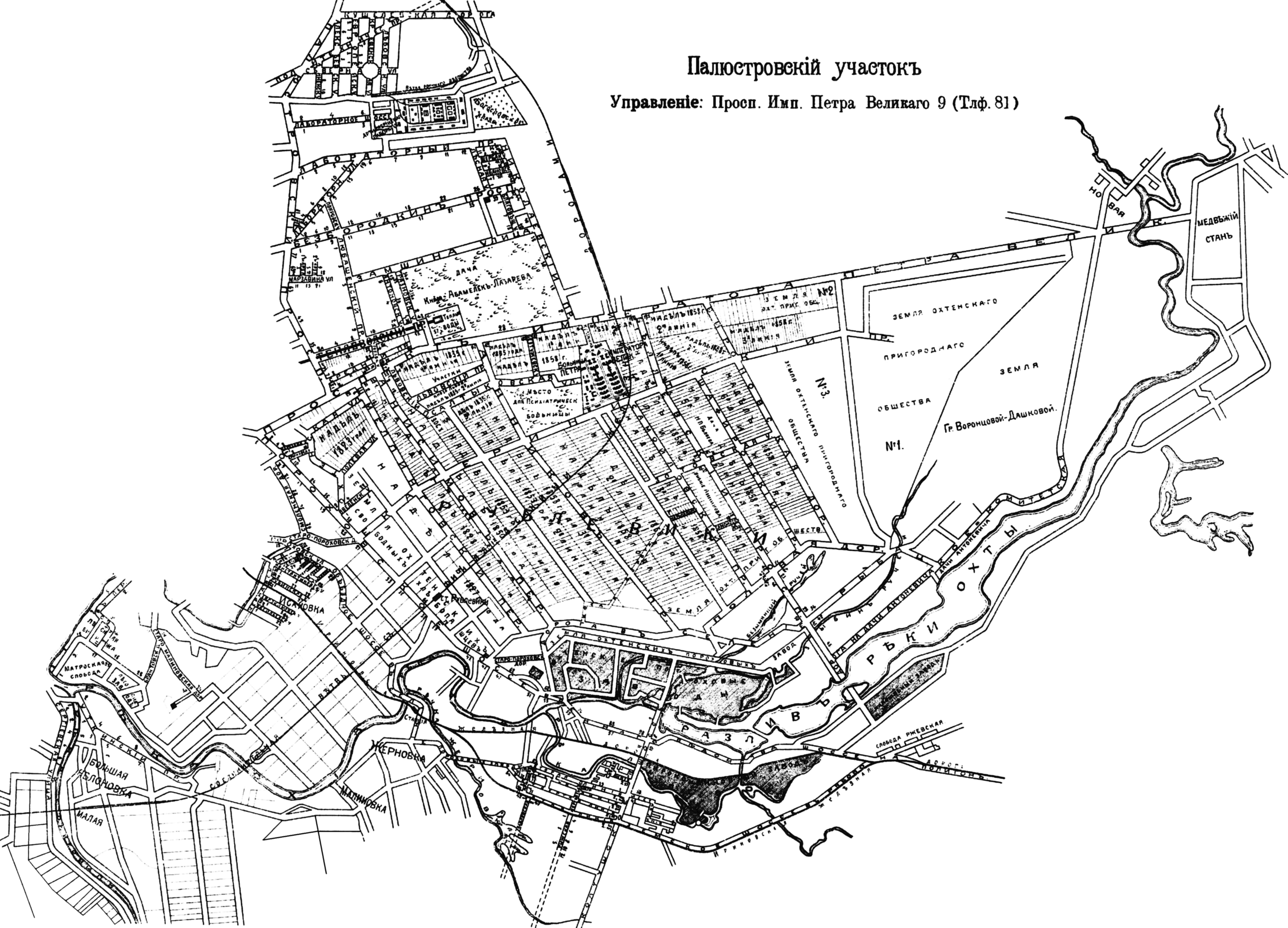 The hand-drawn map of 'Paliustrovsky Uchastok' - one of the closest suburban districts of Petersburg in Russia